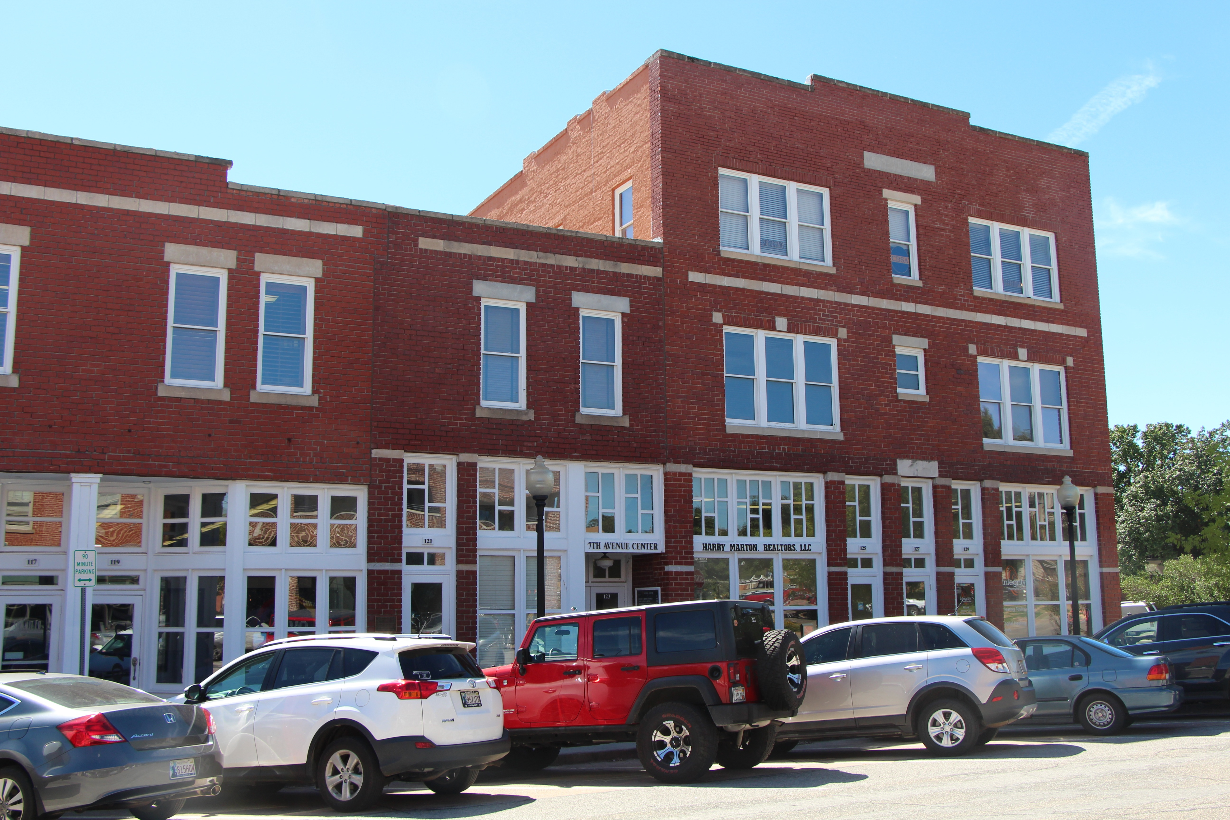 Hoke Building, 121 W. 7th Ave. Stillwater